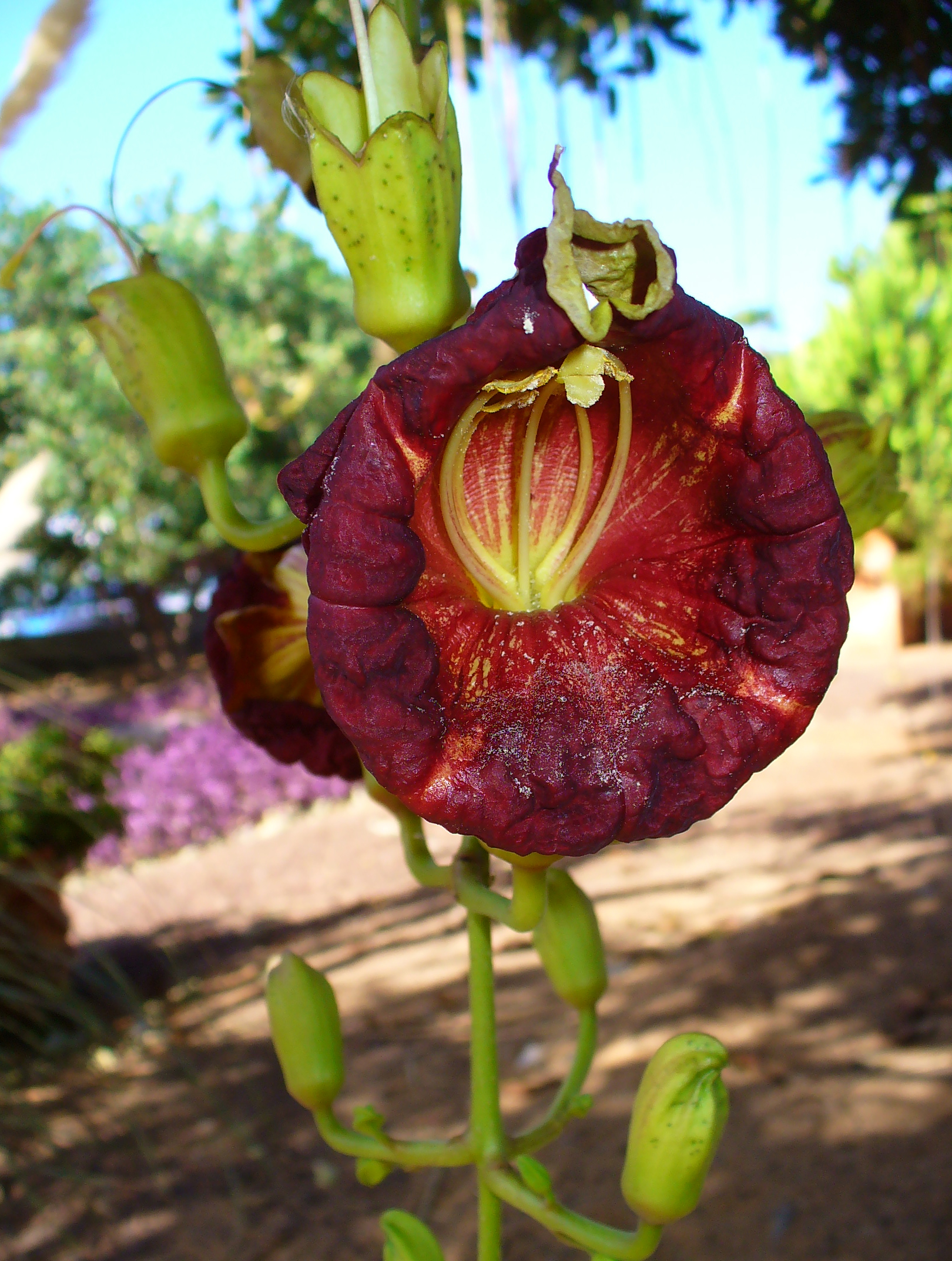 Sausage tree; Flower; Botanical Garden Maspalomas, Gran Canaria, Canary Islands, Spain